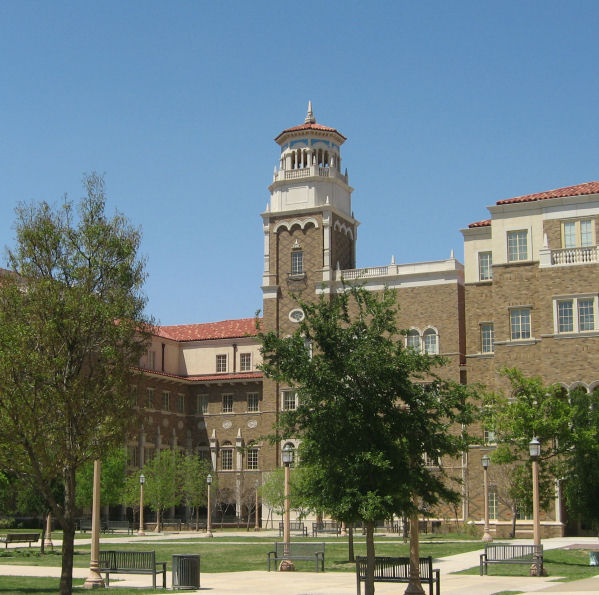 The English Philosophy building at Texas Tech University in Lubbock, Texas.